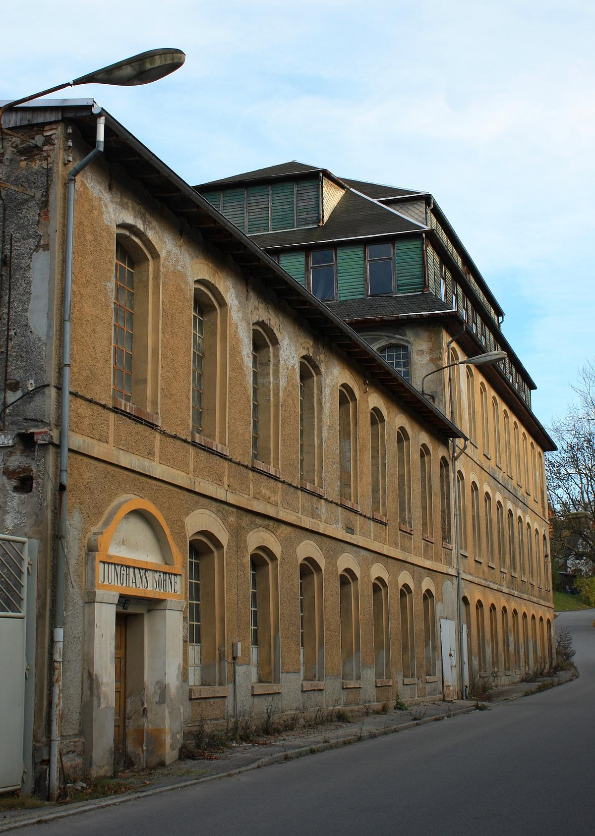 Rittersgrün: brownfield.